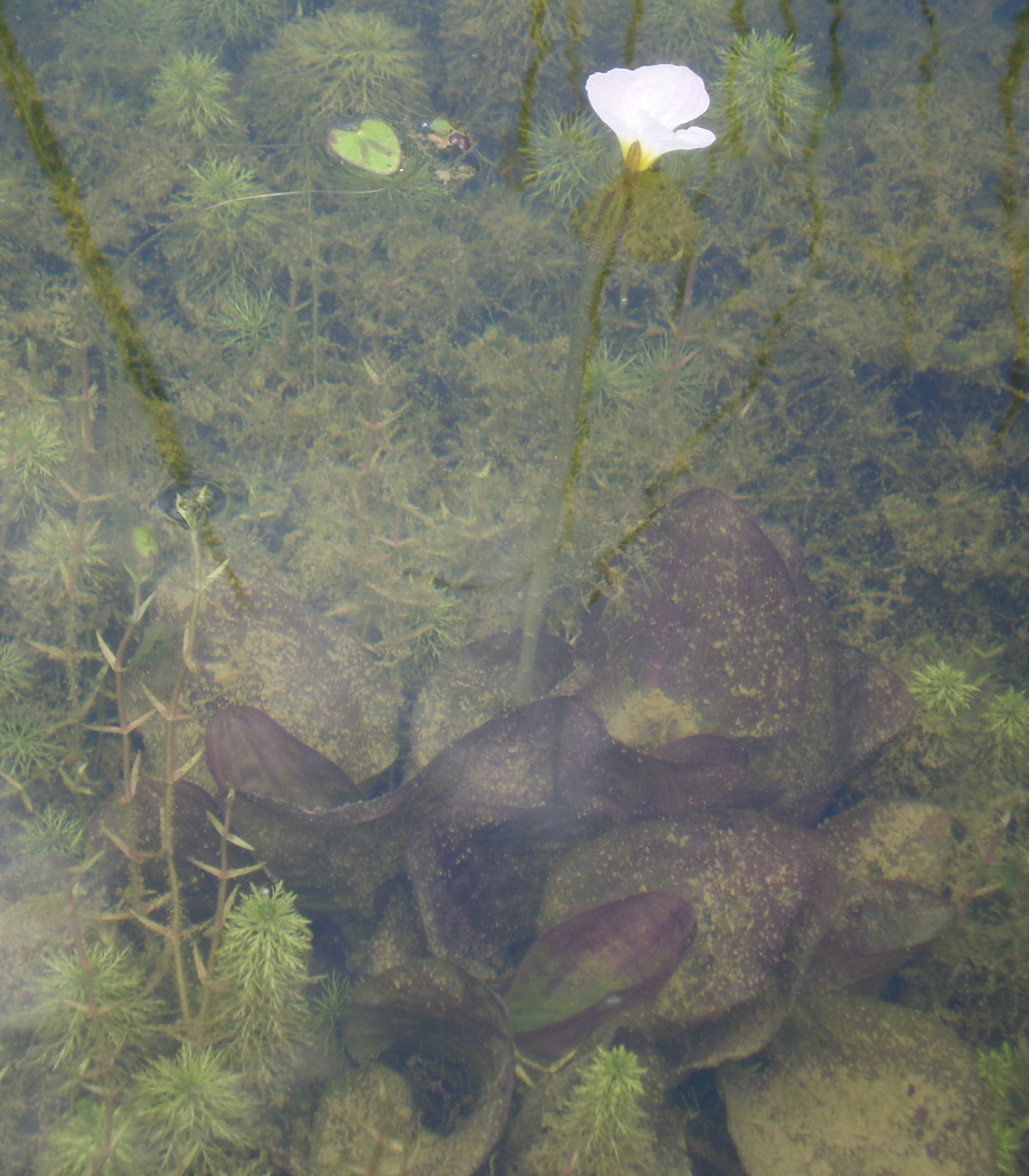 Ottelia alismoides(synonym:Ottelia japonica),Hydrocharitaceae